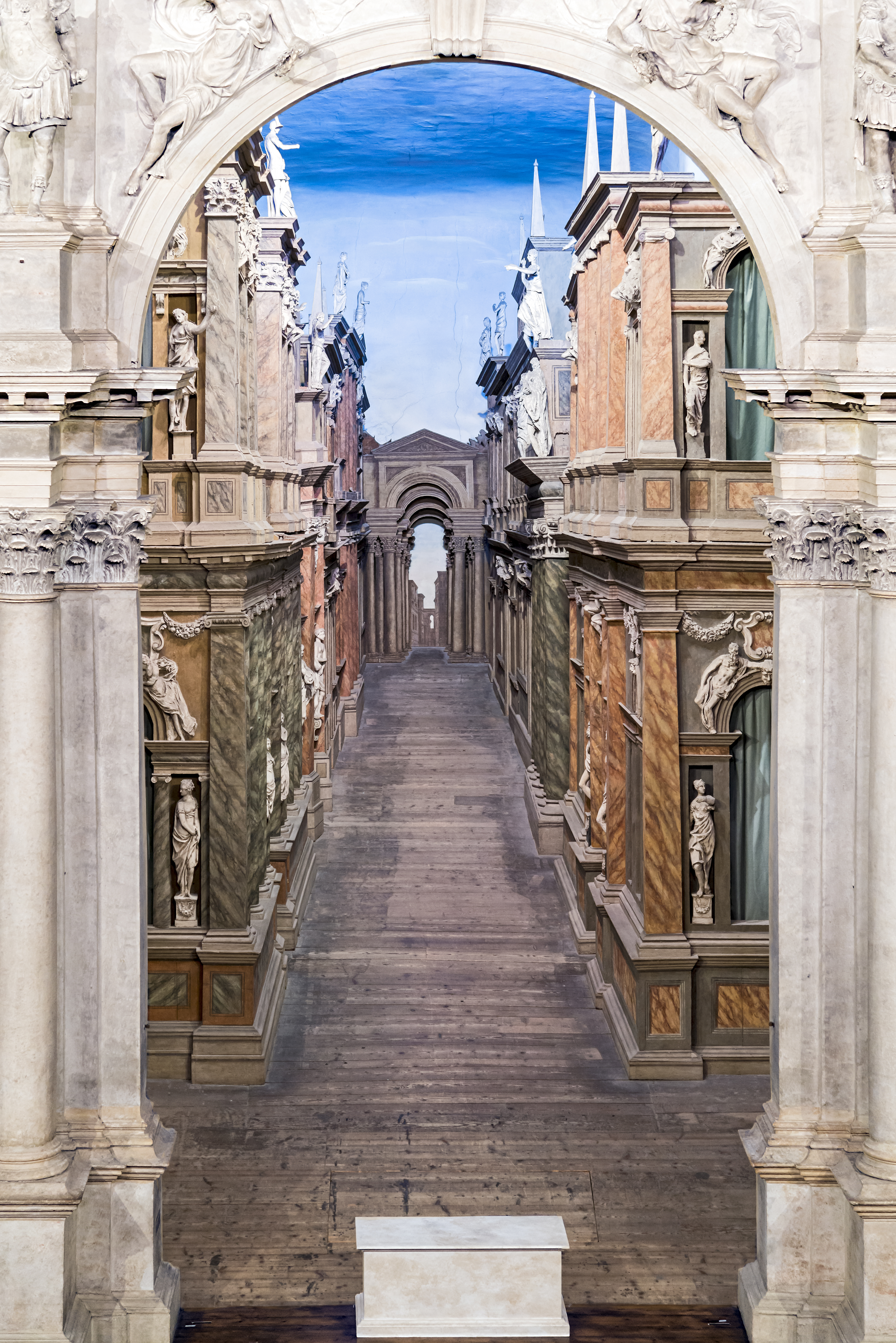 Teatro Olimpico. Theater located in Vicenza, designed in 1580 by the architect of the Renaissance Andrea Palladio. It is generally considered the first permanent covered theater of modern times. View of the stage wall (Scaenae frons). Detail of the wooden decor of Vincenzo Scamozzi, visible through the porta regia